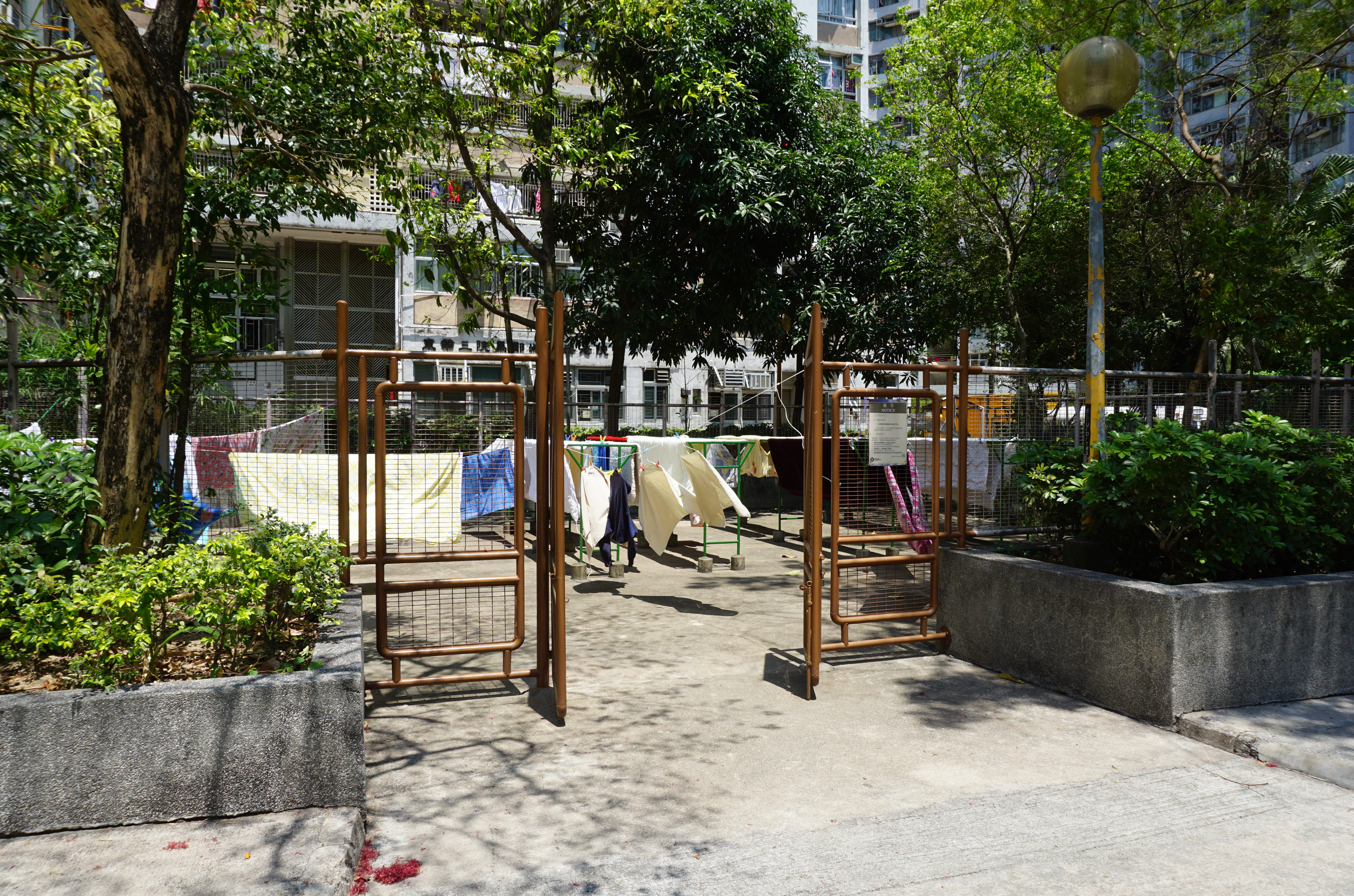 Lei Cheng Uk Estate in Cheung Sha Wan, Hong Kong.